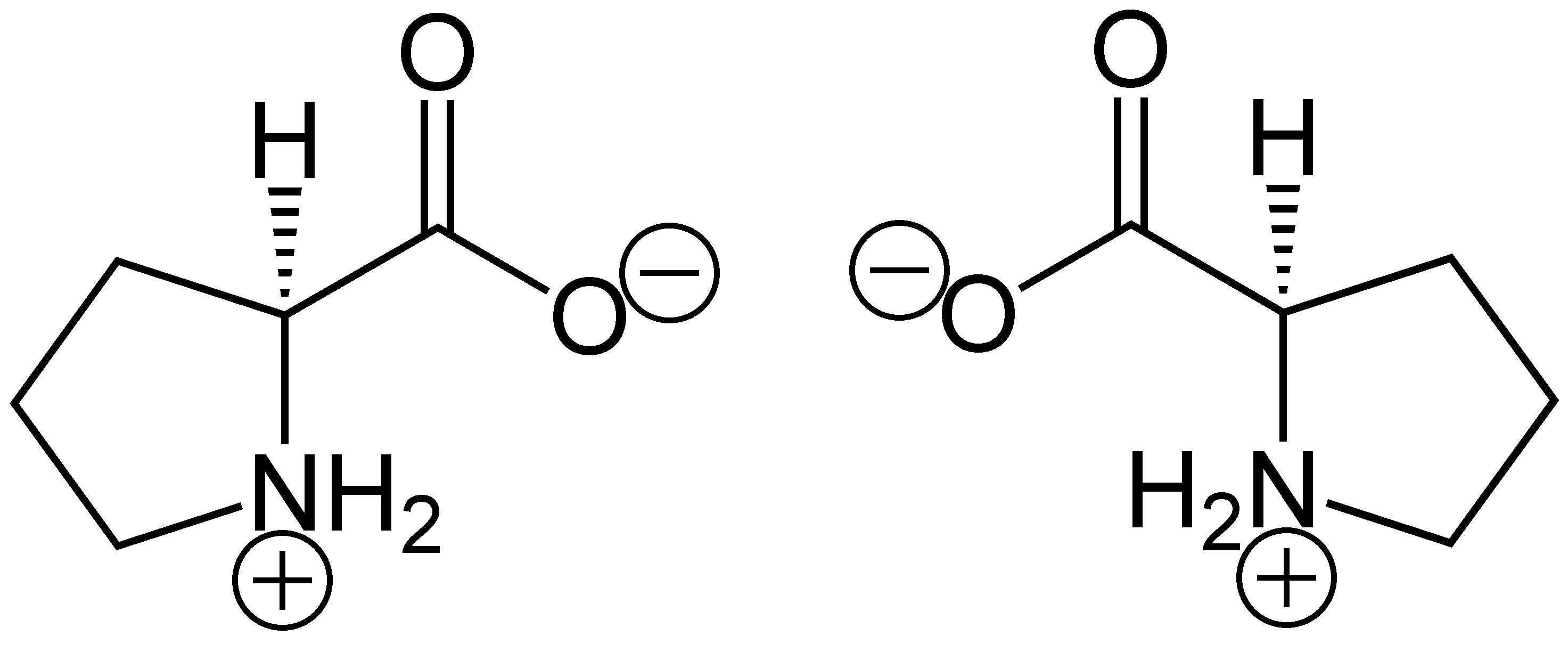 Betain-Proline